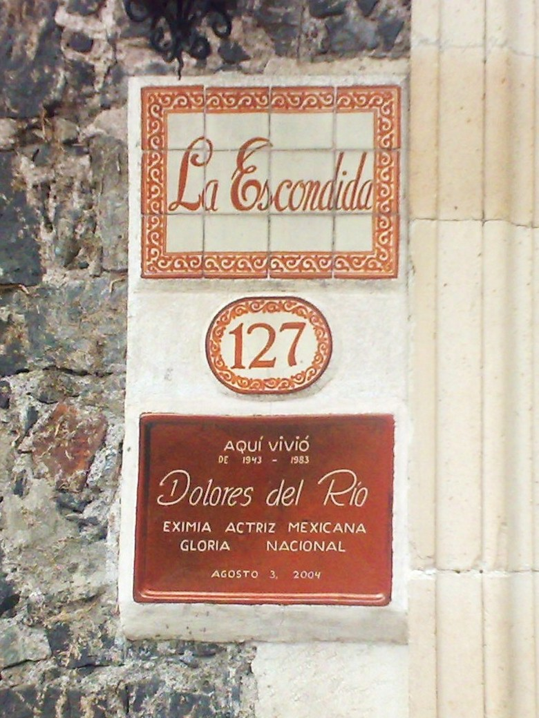 Commemorative plaque at the house where Dolores del Rio lived in Coyoacan, Mexico City.